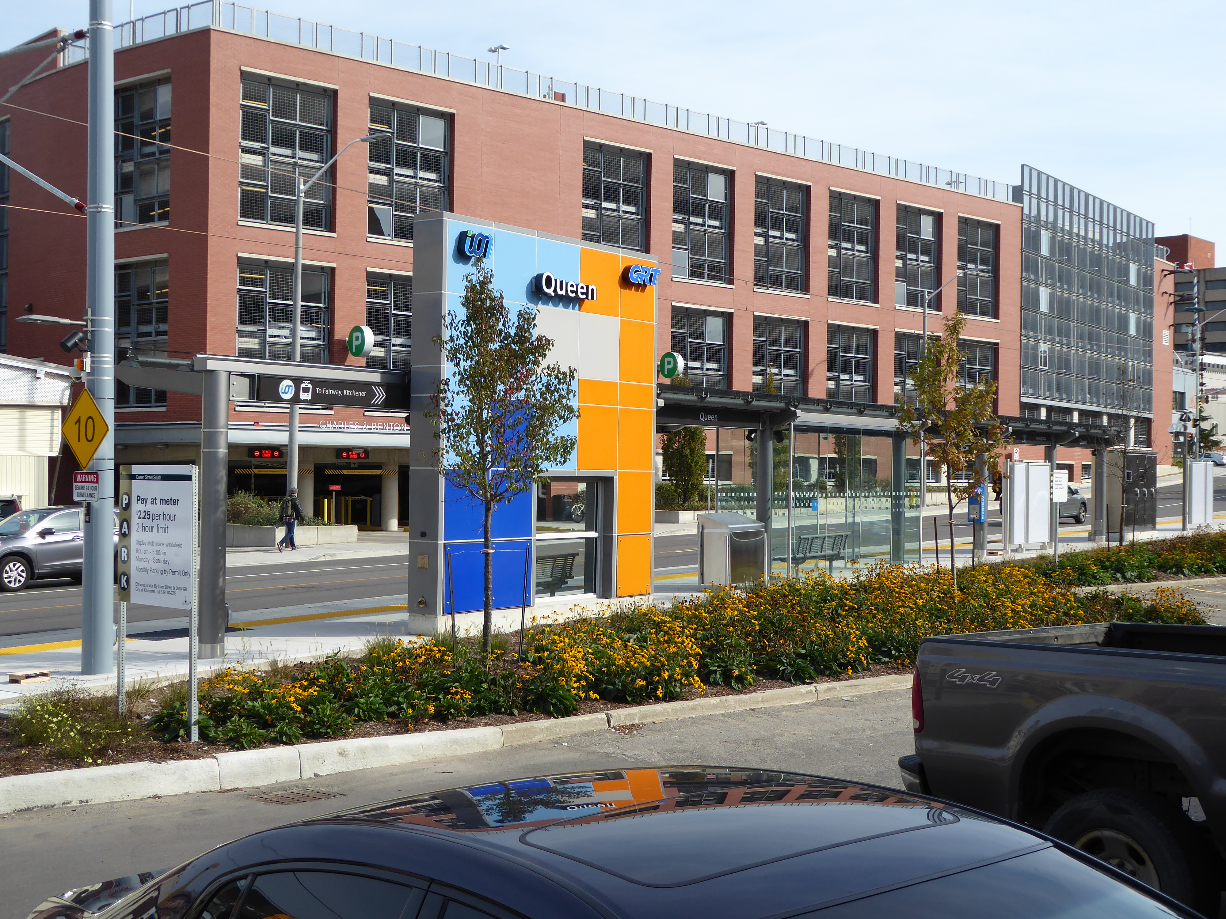 Queen Station of the Ion rapid transit system, photographed structurally complete October 2017